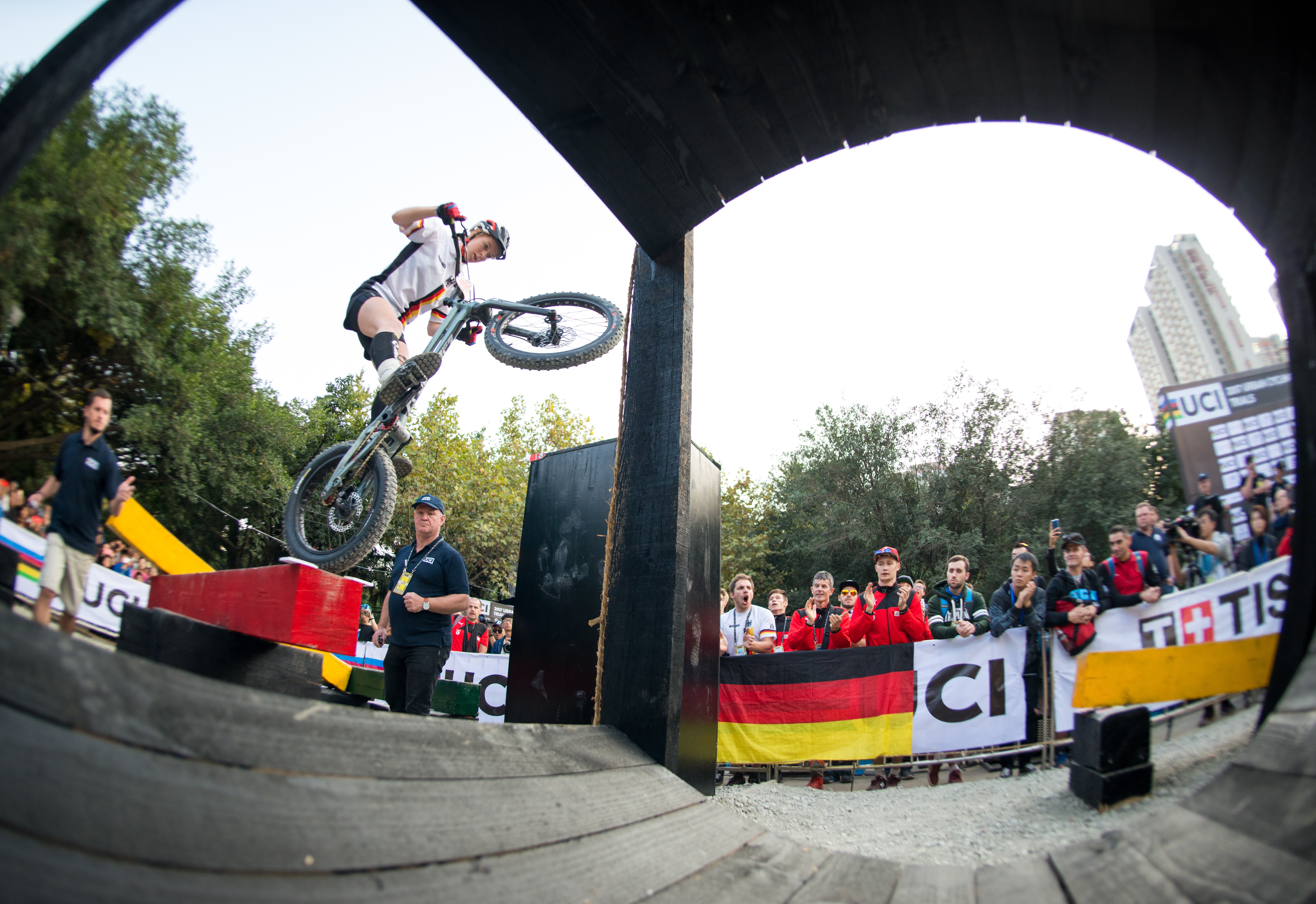 UCI Urban World Championships in Chengdu, China